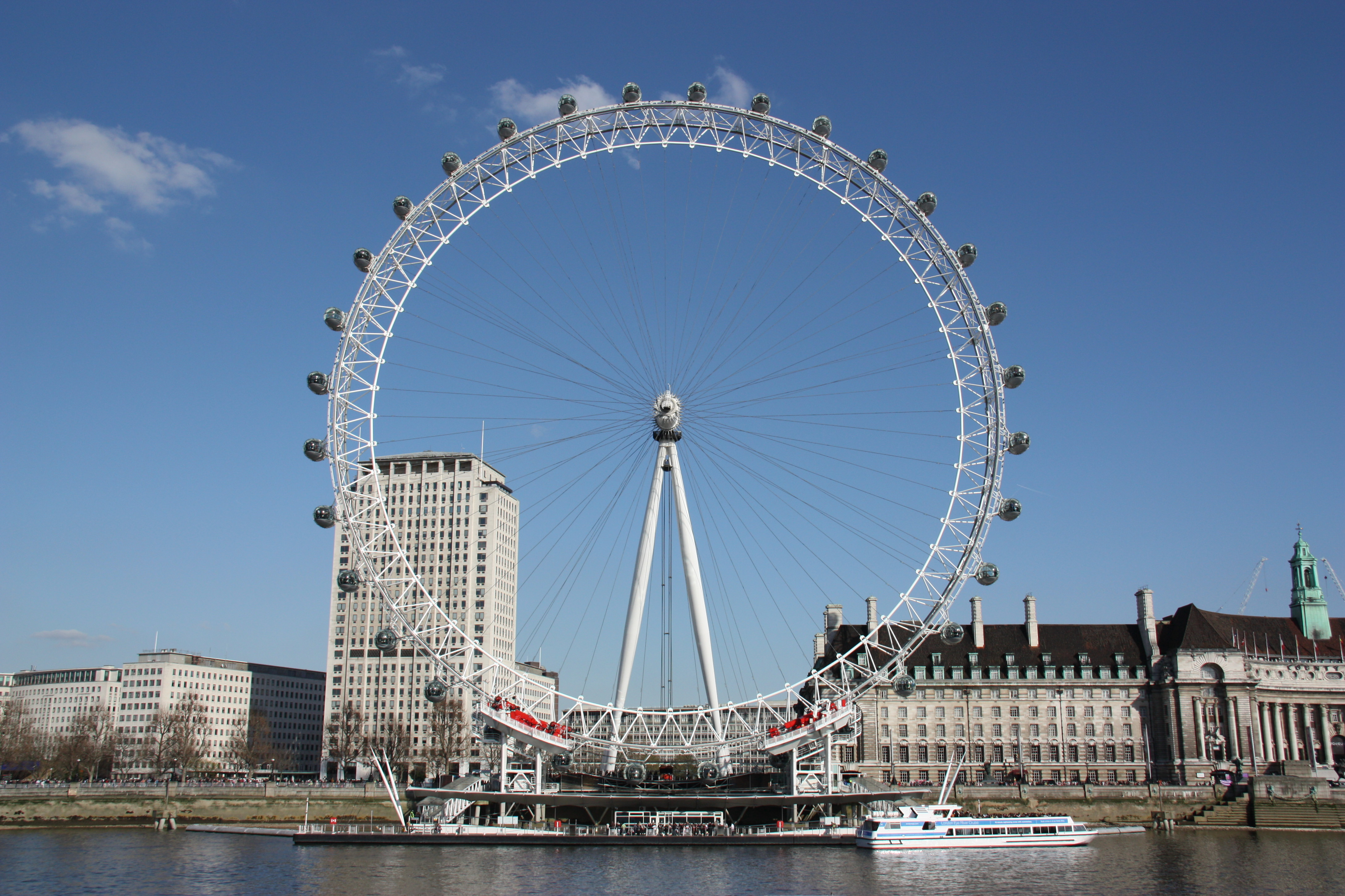 The London Eye from across the River Thames.